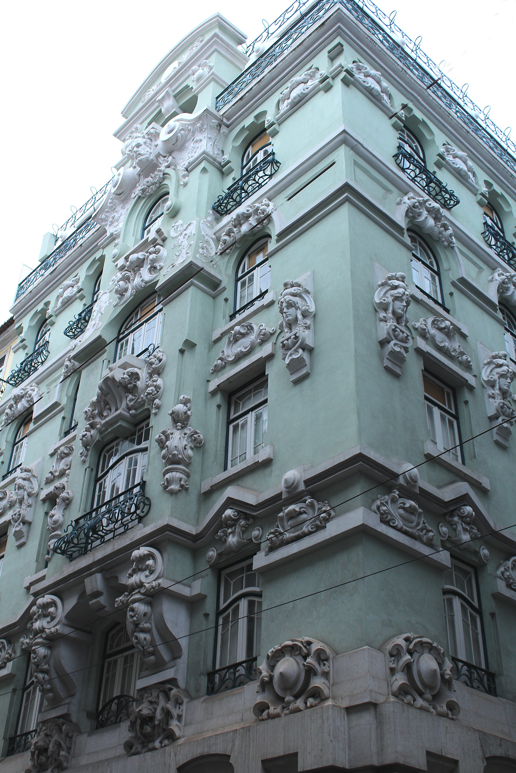 Lisbon, house at the corner Rua da Conceição and Rua do Crucifixo